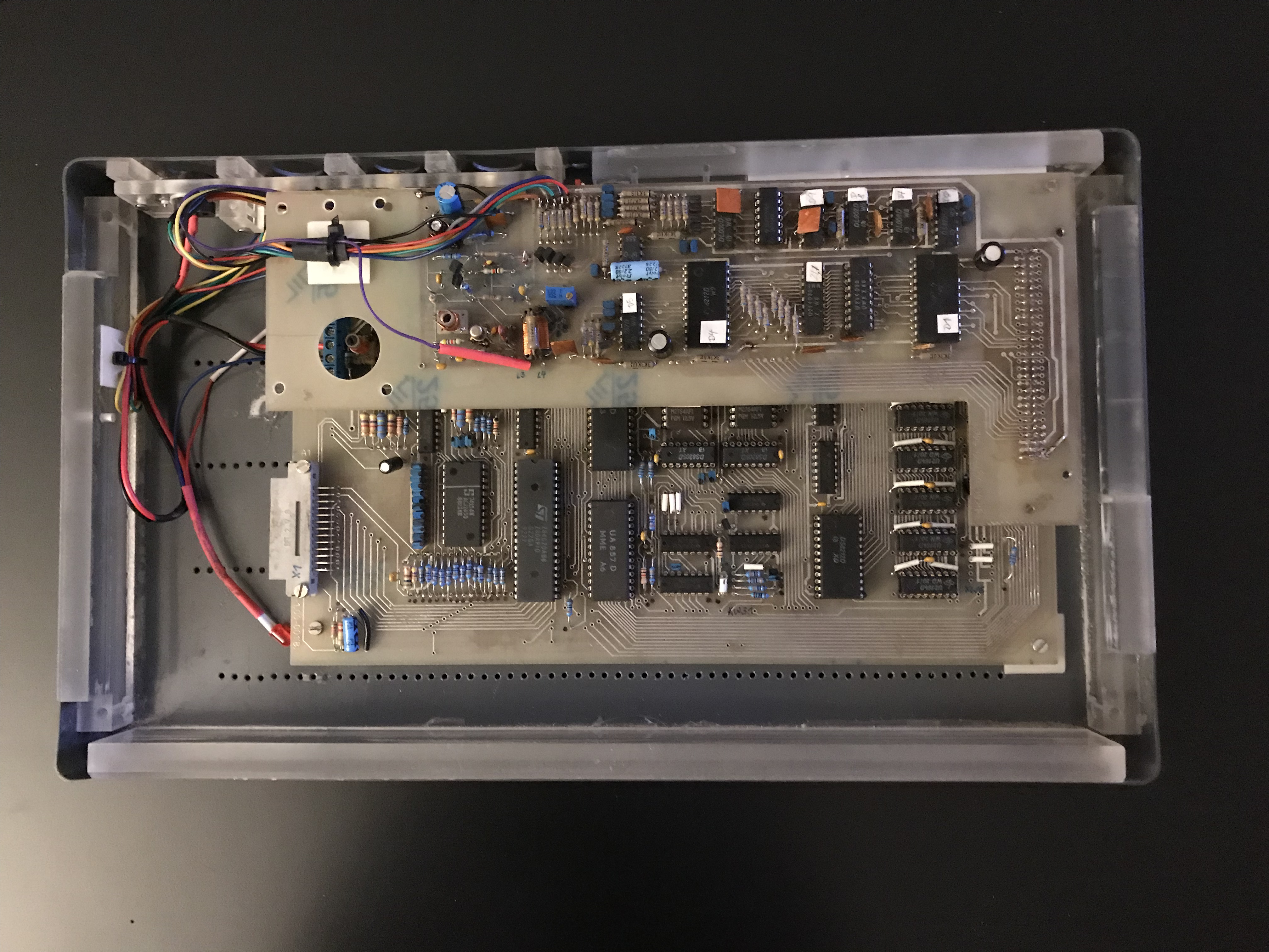 Chassis with main and video board